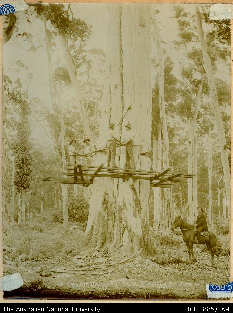 Cutting timber, Karridale Timber Station, Western Australia 1890s